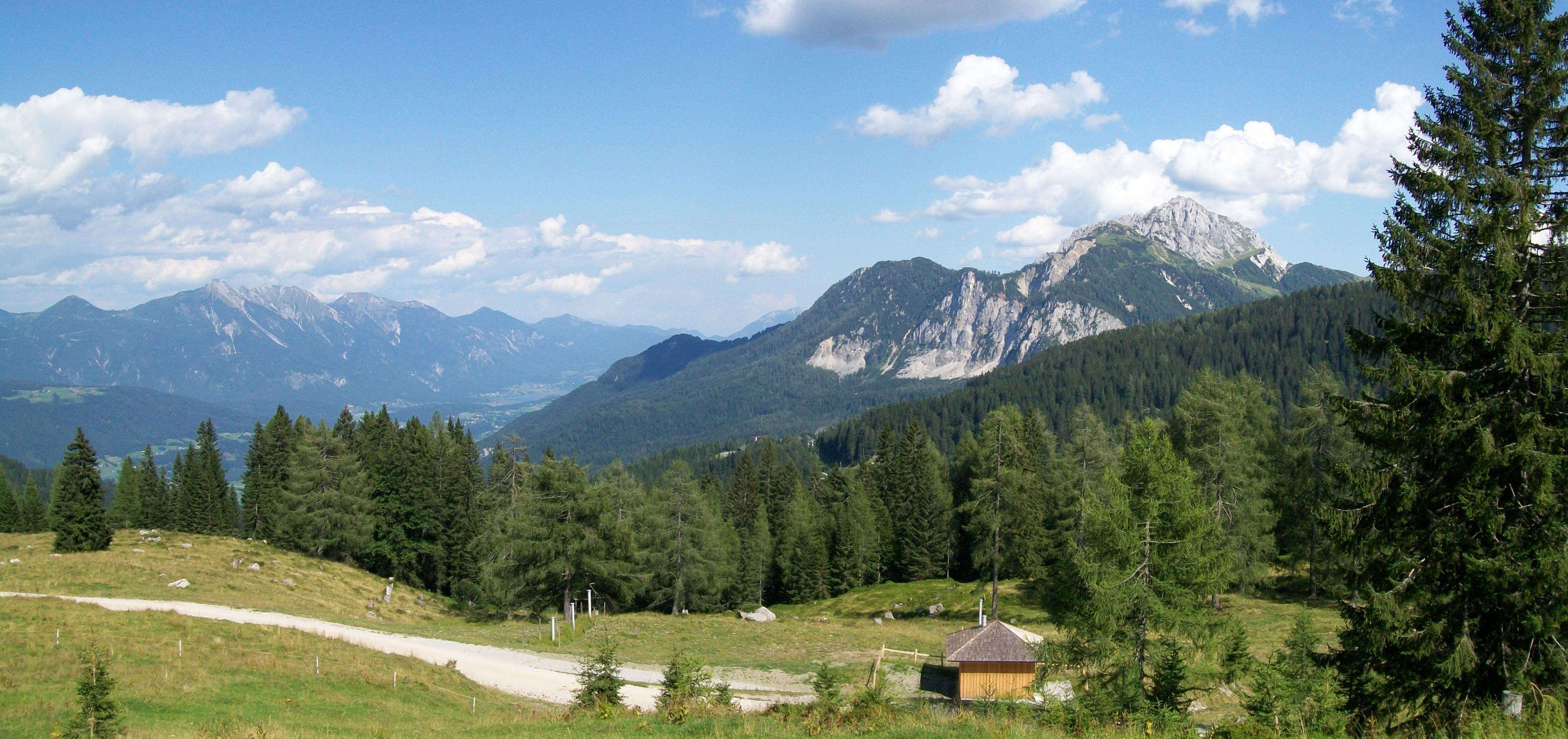 Gartnerkofl photographed from rattendorfer alp